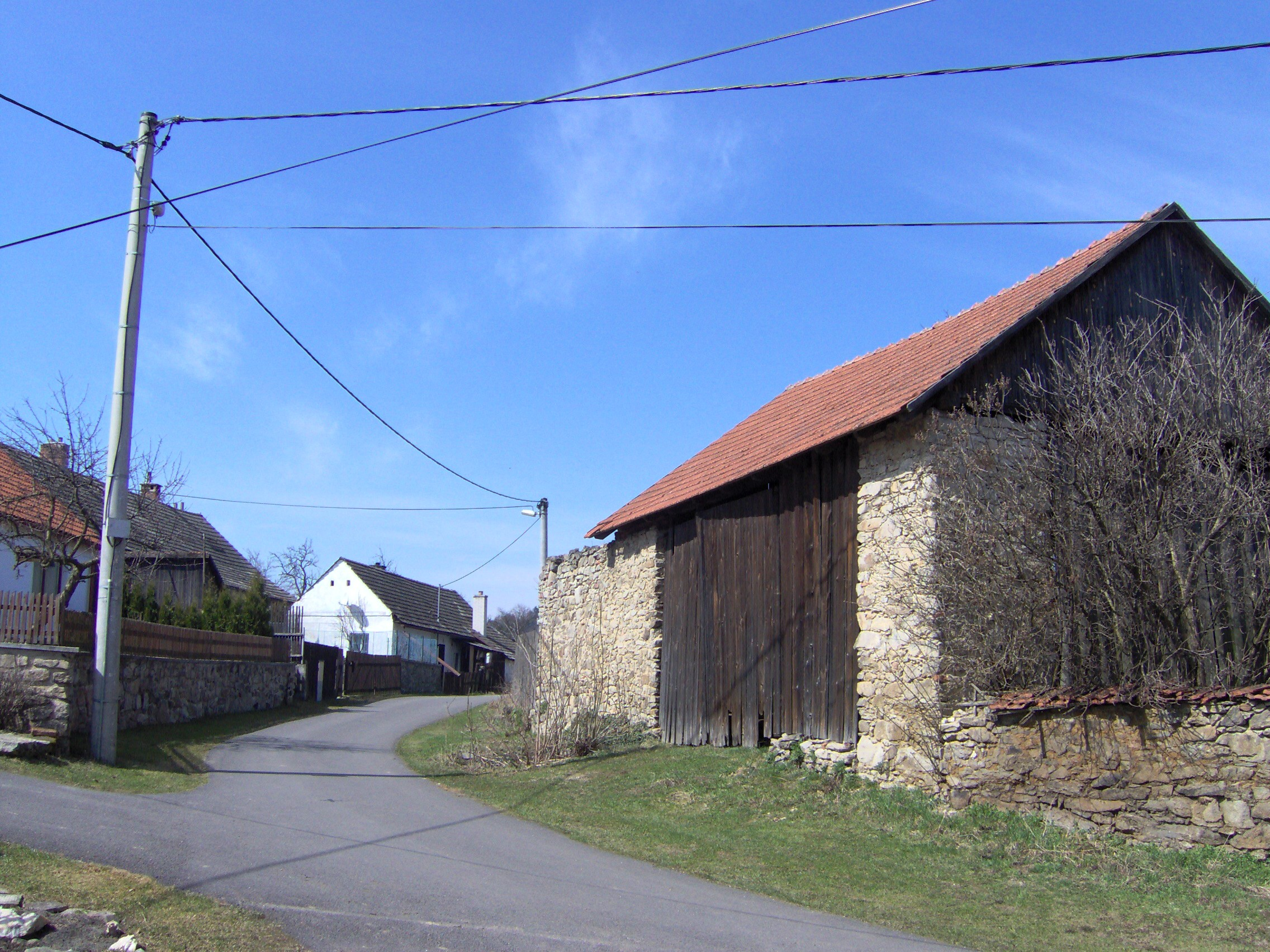 Skřinářov village, street and barn, Žďár nad Sázavou District, Czech Republic